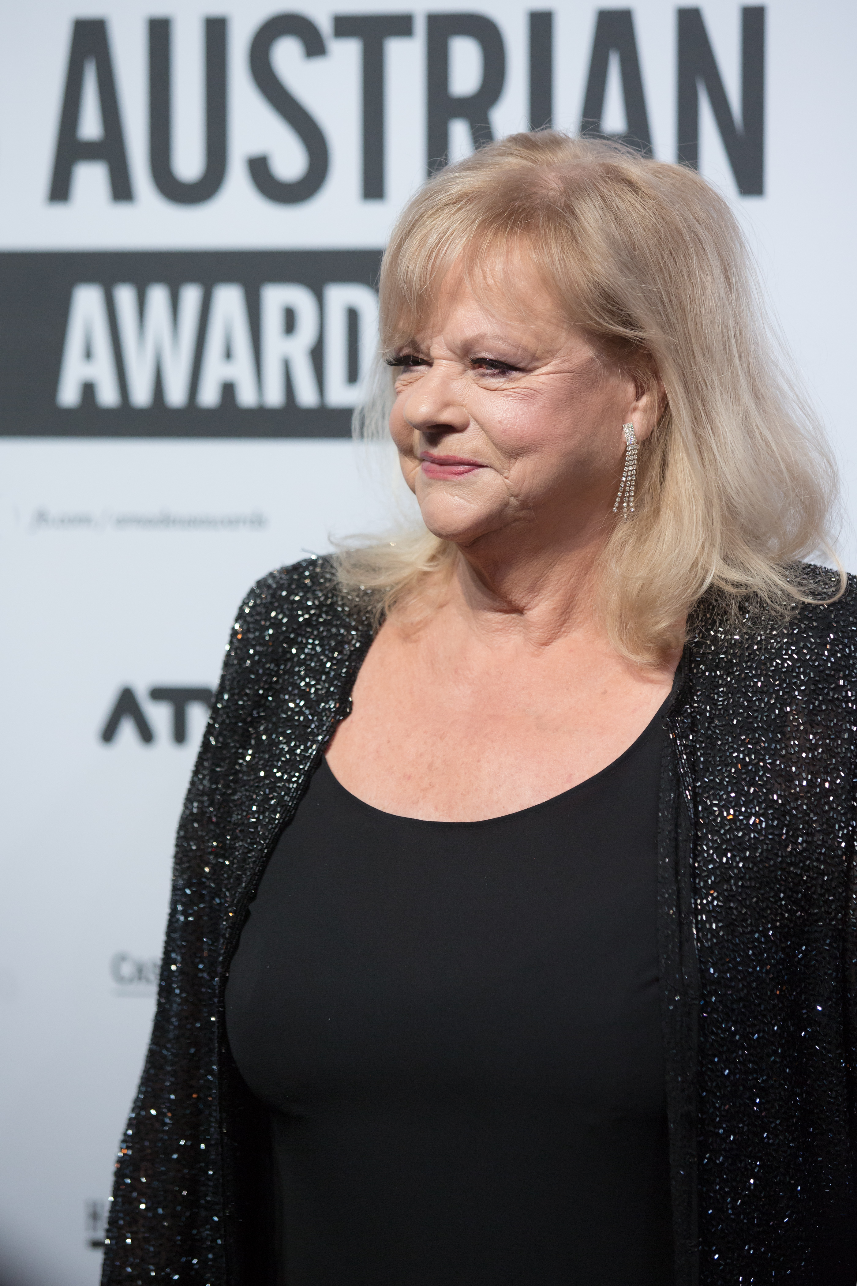 Marianne Mendt at the Amadeus Austrian Music Award 2015 at Volkstheater in Vienna